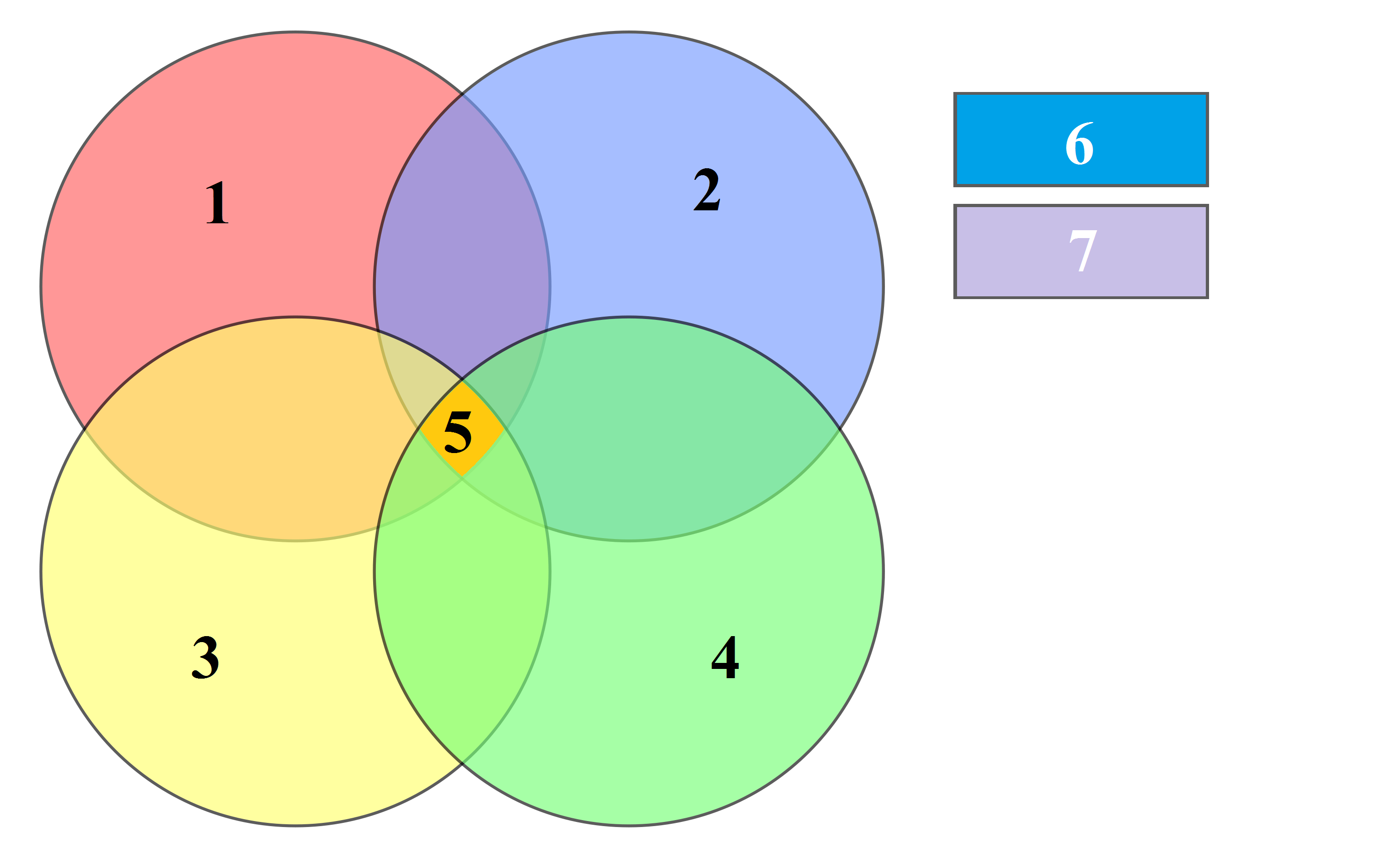 Diagrammatic representation of acidogenic theory of etiology of dental caries